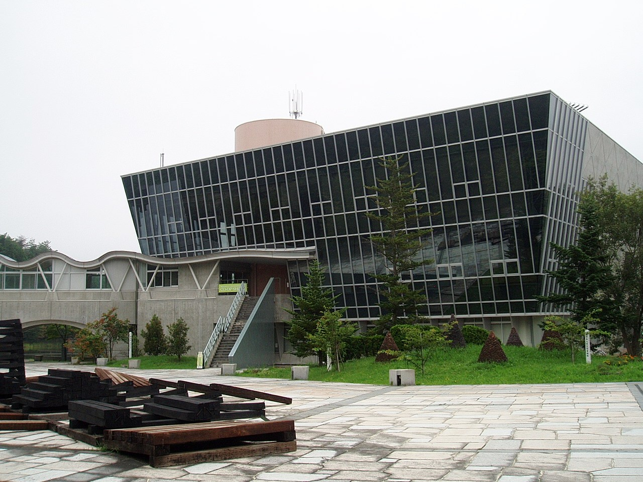 Exchange Center Bldg., Miyagi University, located in Taiwa, Miyagi, Japan.